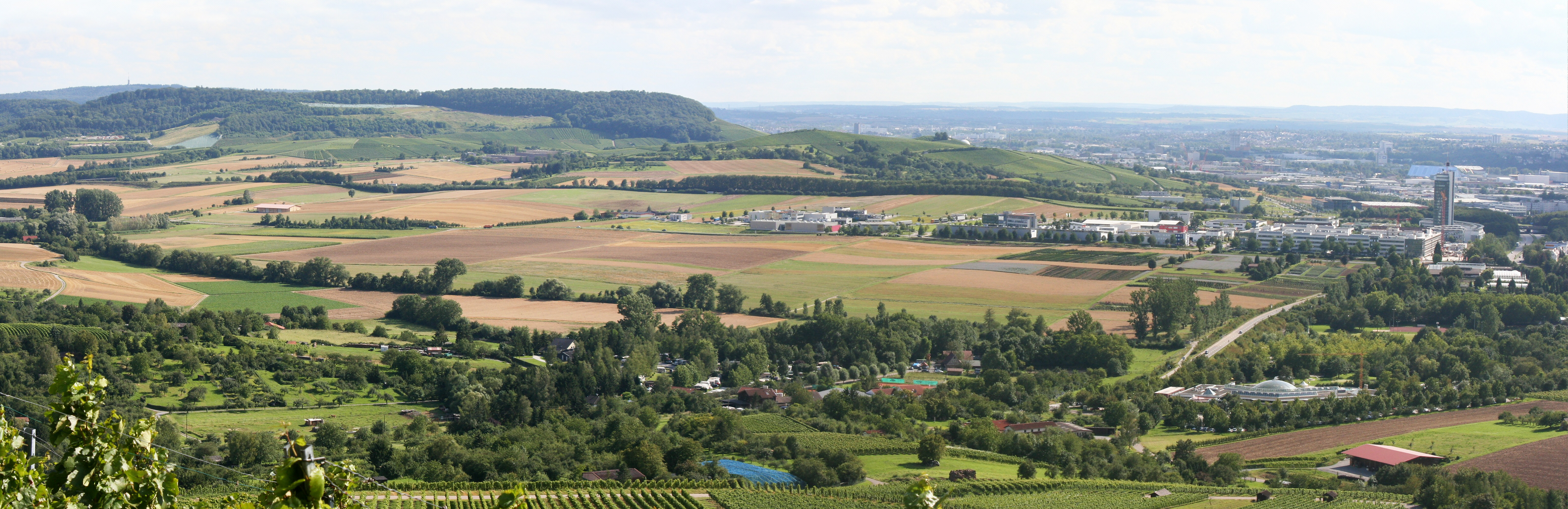 The lower Sulm valley between Erlenbach (left) and Neckarsulm (right), as seen from the North from the Scheuerberg hill in Neckarsulm. In the background on the left the Wartberg hill, in the middle the Stiftsberg hill, behind it and on the right Heilbronn. On the right, in the lower half of the image, the dam (with road) of the Neckarsulm detention basin.